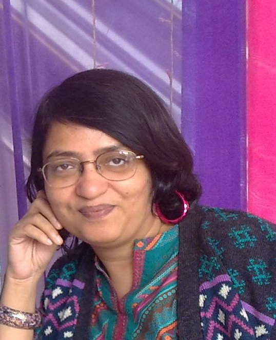 This is a photo of writer Neelam Saxena Chandra.